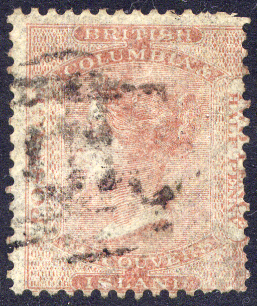 The first and only stamp issued (in 1860) for use in both British Columbia and Vancouver Island, which were separate colonies at the time.